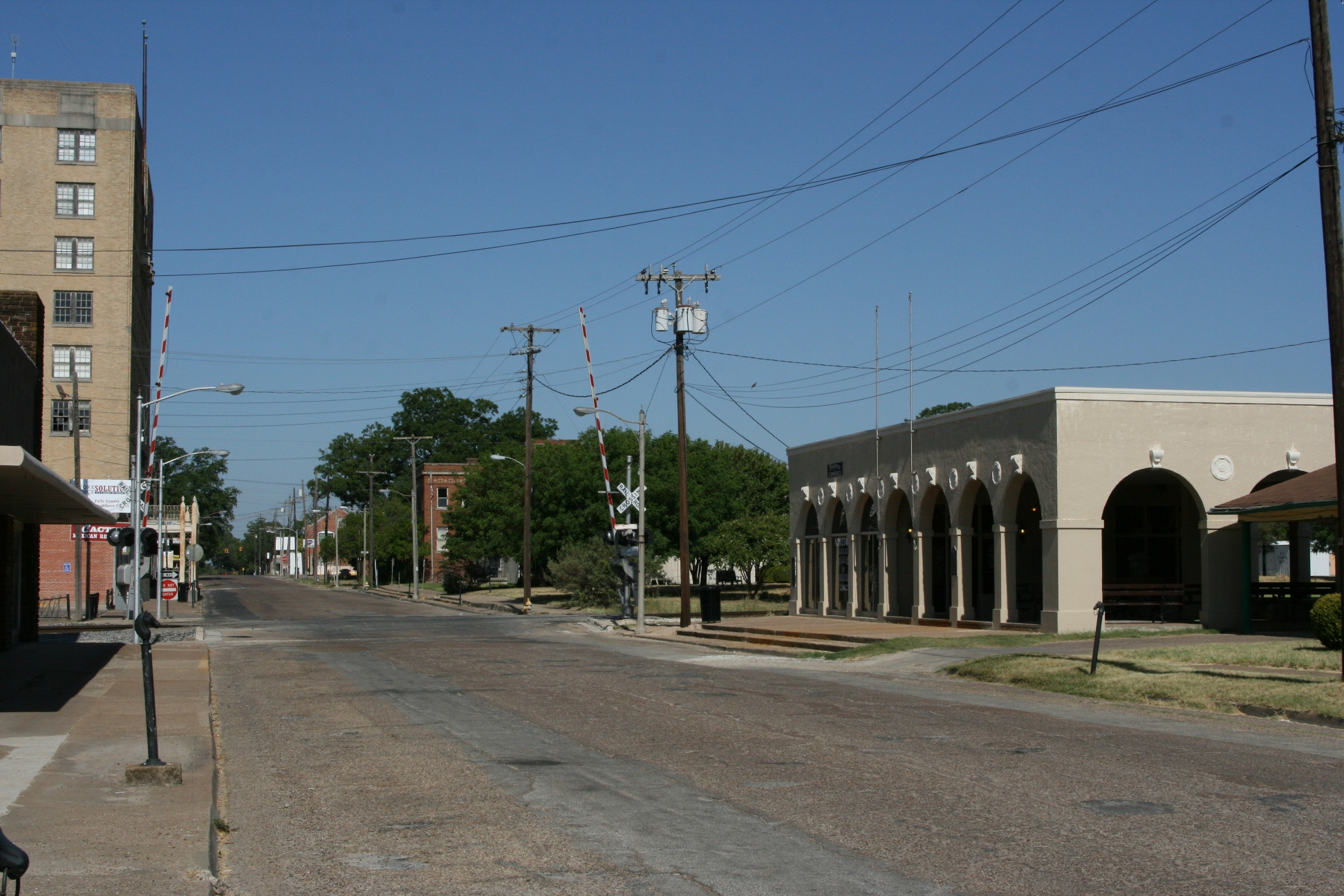 Downtown View of Marlin, Texas, across railroad tracks